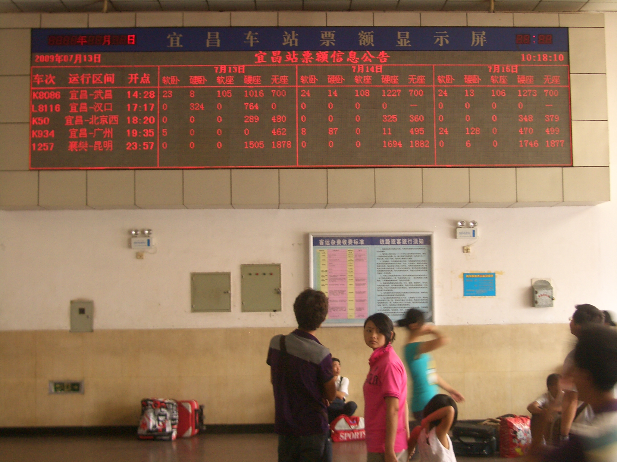 The facade of the Yichang Railway Station Passengers study seat availability display board at the ticket buying hall of the Yichang Train Station